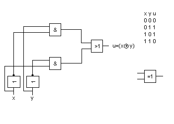 XOR Gate